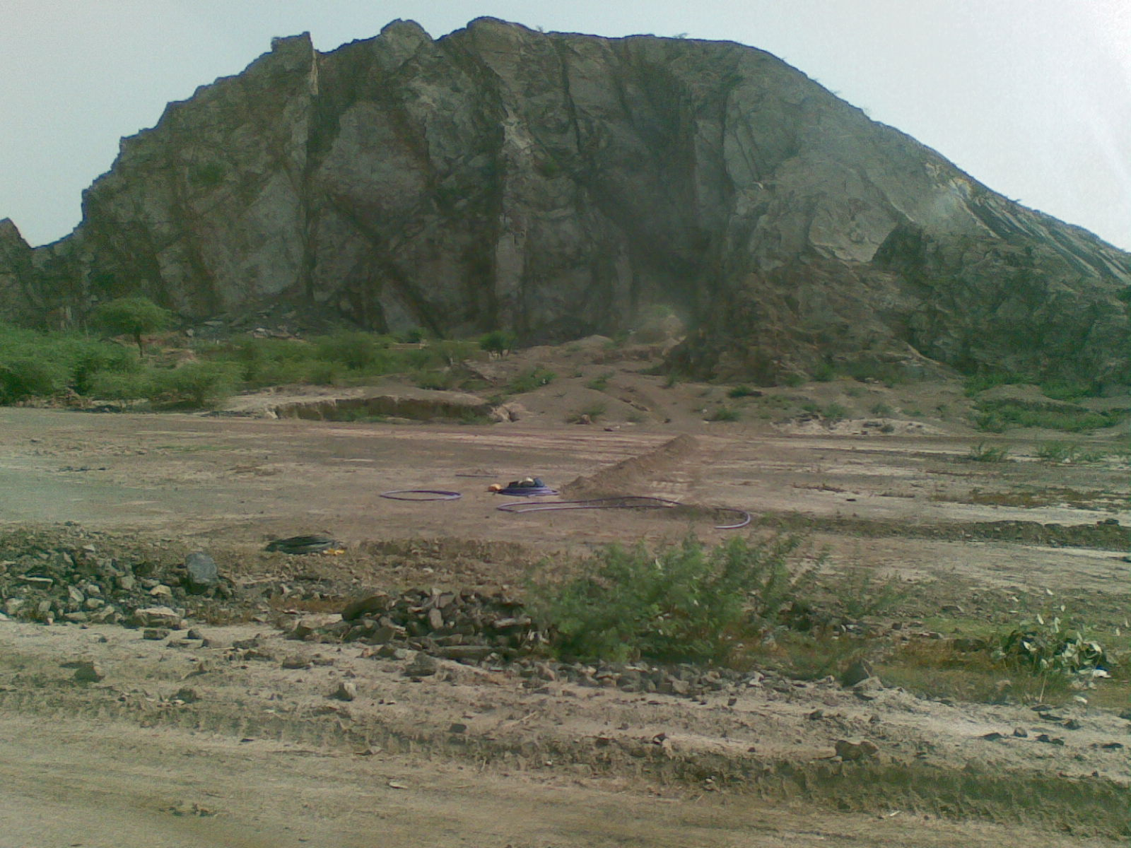 This single moountain is standing while you travel from rabwah to Sargodha on Sargodha Faisalabad Highway somewhere in the outskirts of Rabwah.